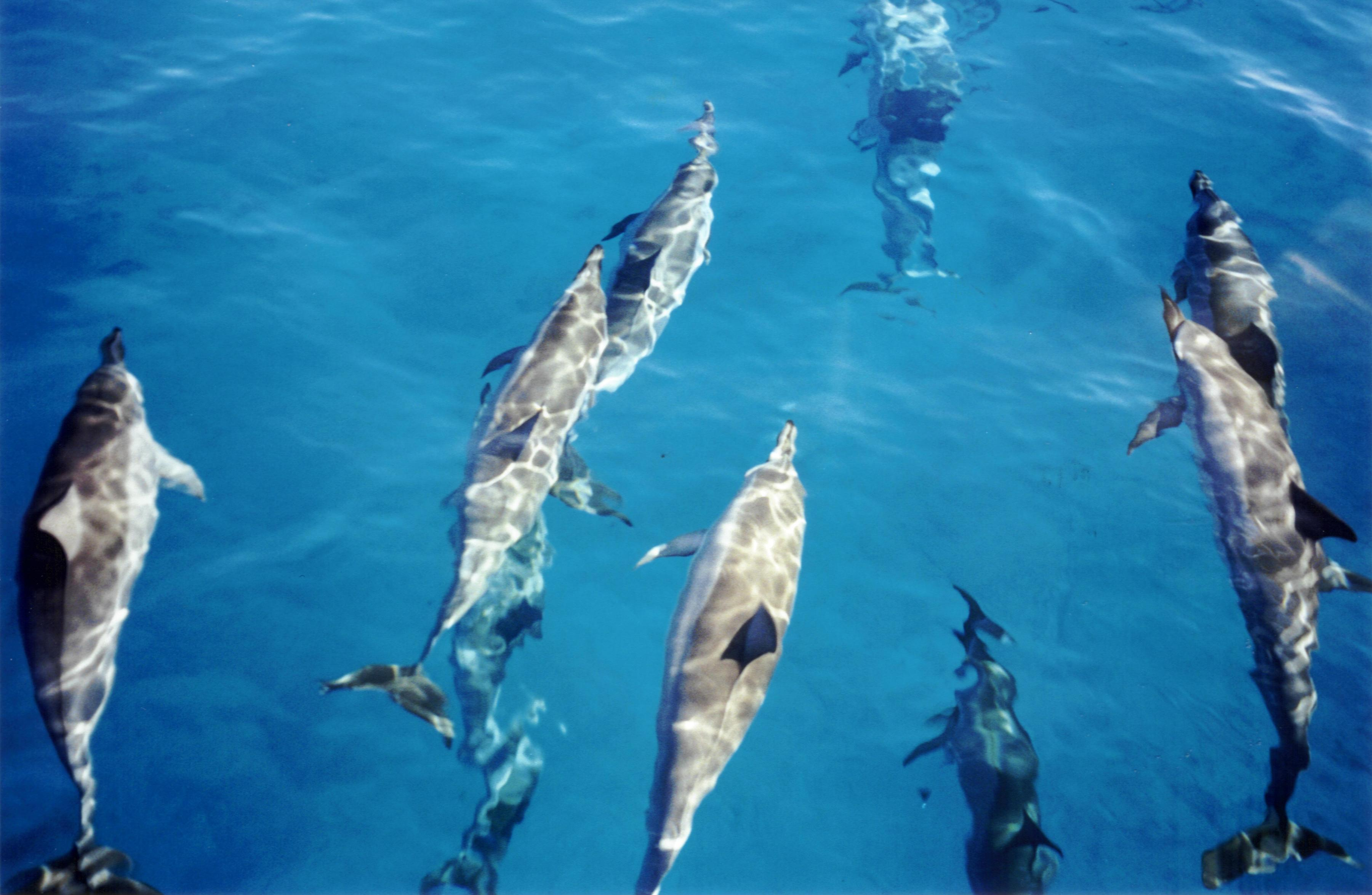 Photo of Spinner dolphins (Stenella longirostris) in the waters of Kauai, Hawaii (top view)